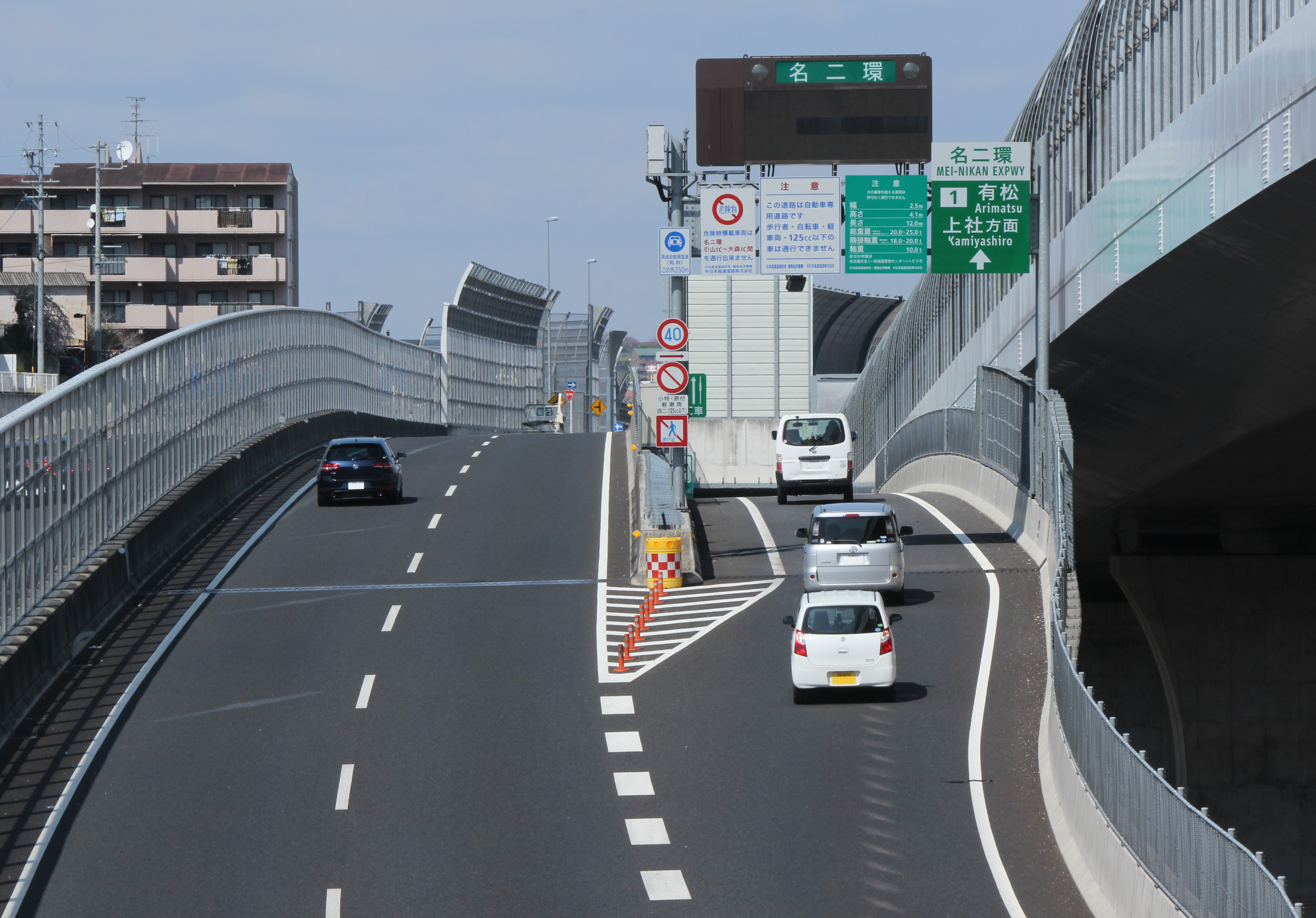 Arimatsu Interchange on the Nagoya-Daini-Kanjo (Meinikan) Expressway, entrance for Kamiyashiro